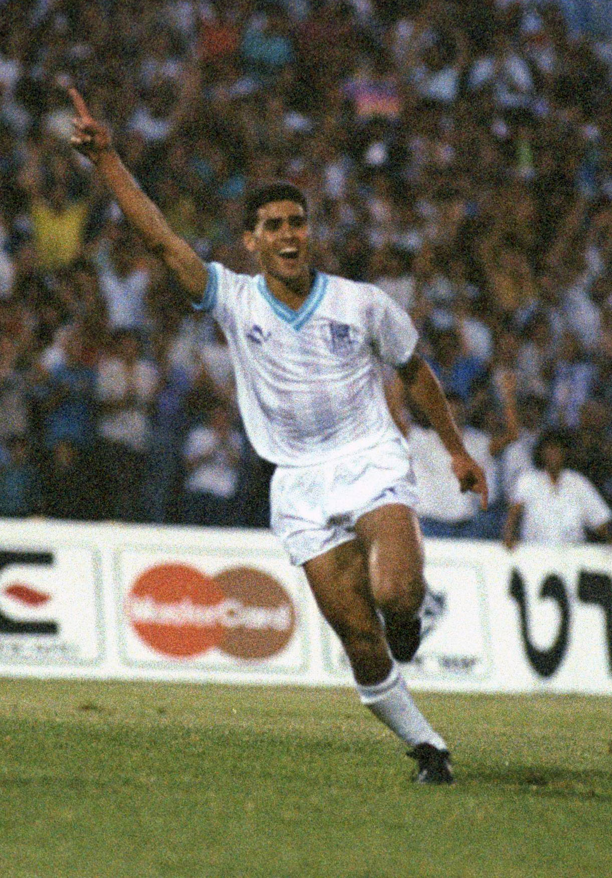 Tal Banin celebrates after scoring a goal during a game against Argentina held at Ramat Gan Stadium.